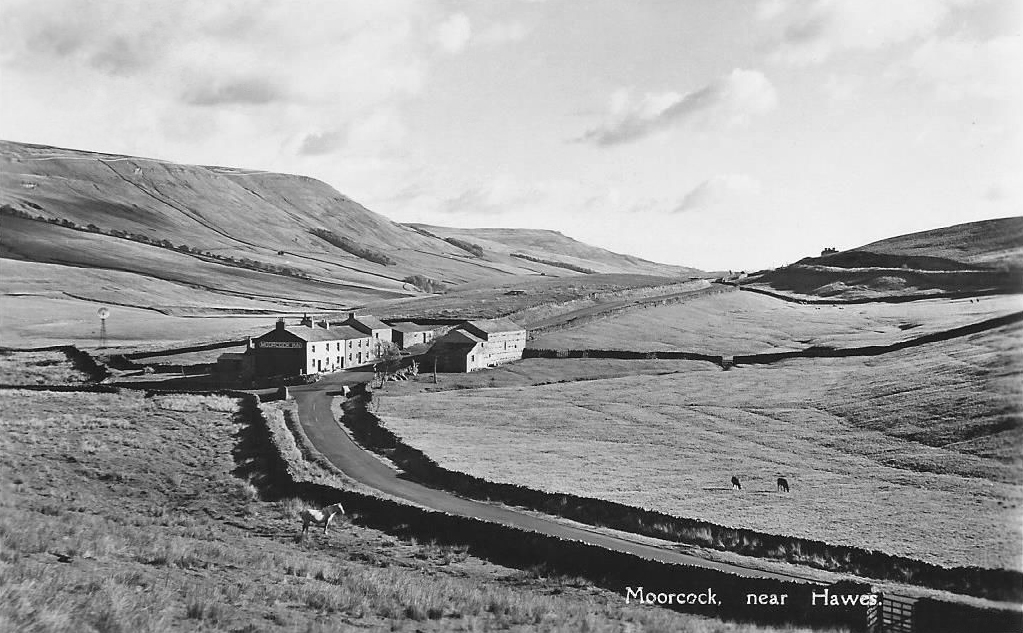 The Moorcock Inn is in the Hawes’ civil parish of the Richmondshire district of North Yorkshire, England. The inn, 400 yards (365 m) east from the border with Cumbria, is at the junction of the A684 and B6259 roads, and 1,476 yards (1,500 m) north-east from Garsdale railway station, previously Hawes Junction. The station is in the hamlet of Garsdale Head, in the South Lakeland district of Cumbria. According to The Yorkshire Post, the Moorcock Inn dates to the 1740s. East of the inn towards Garsdale station is Dandry Mire Viaduct (alternatively Moorcock Viaduct) over which passed, on Christmas Eve 1910, the St Pancras to Glasgow Express which collided into the rear of two engines. Twelve dead from the crash were kept in the inn cellar before burial in Hawes churchyard.